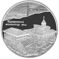 Coin of Ukraine